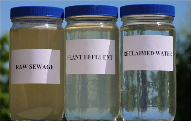 Reclaimed water shown at various stages of treatment, Department of Ecology, State of Washington